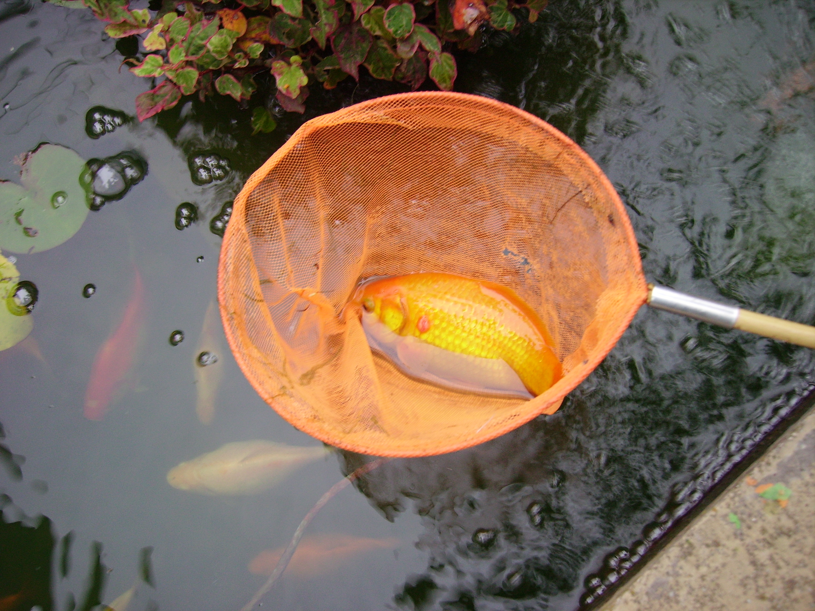 Several of my friend's goldfish have developed ugly red spots like the one seen.